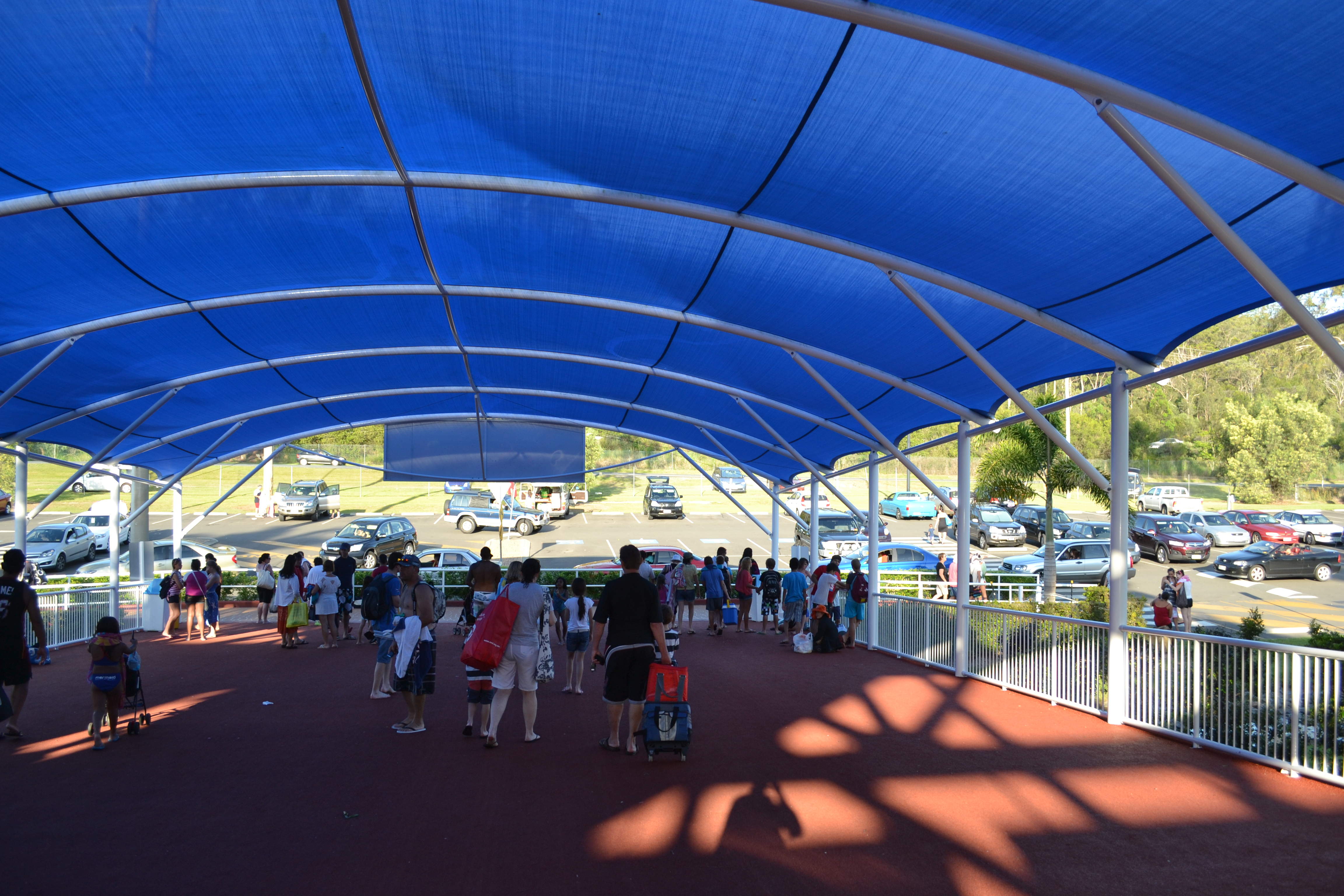 A newly installed cover over Wet'n'Wild Water World's entrance.